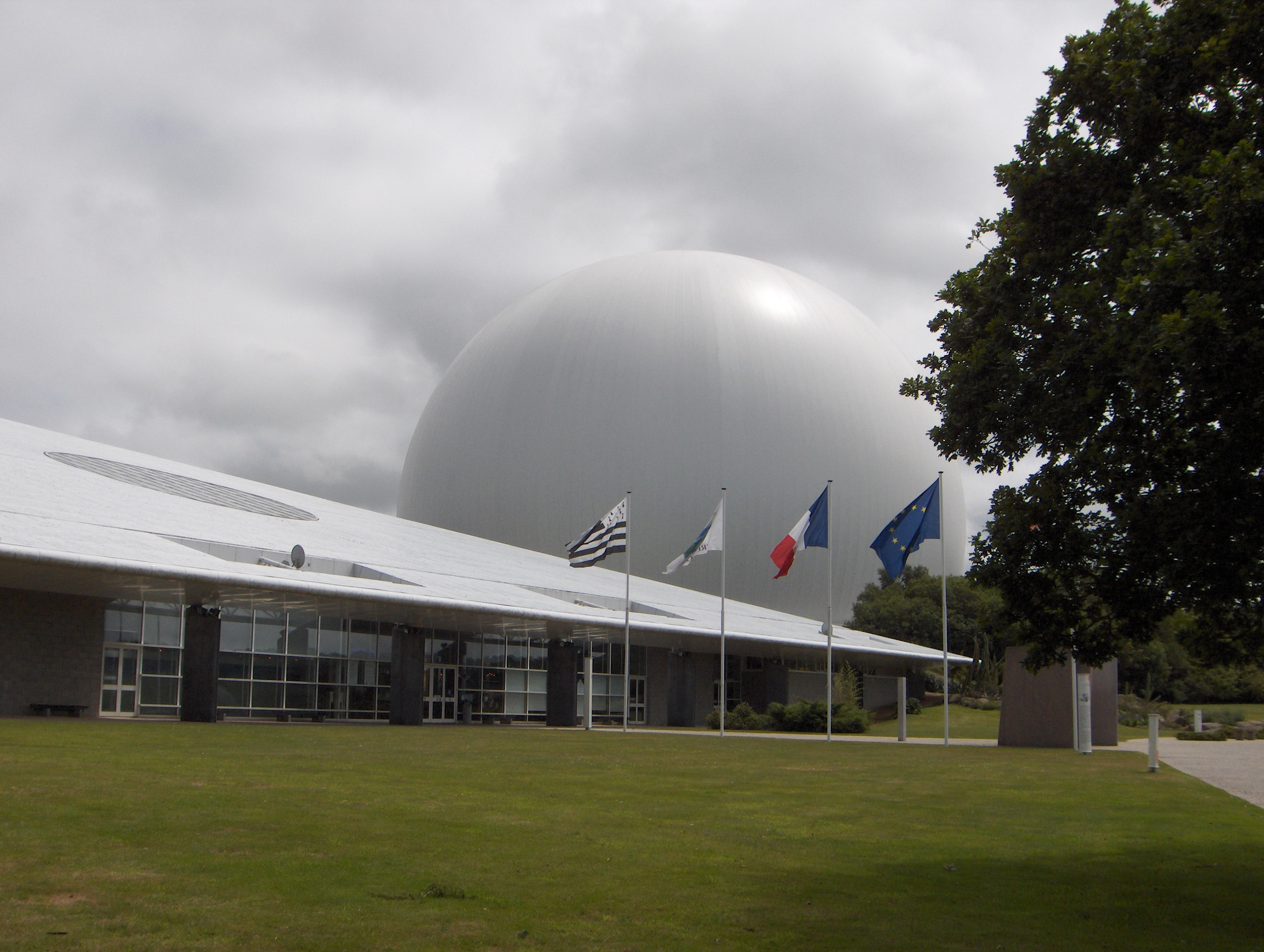 The radome of Pleumeur-Bodou.